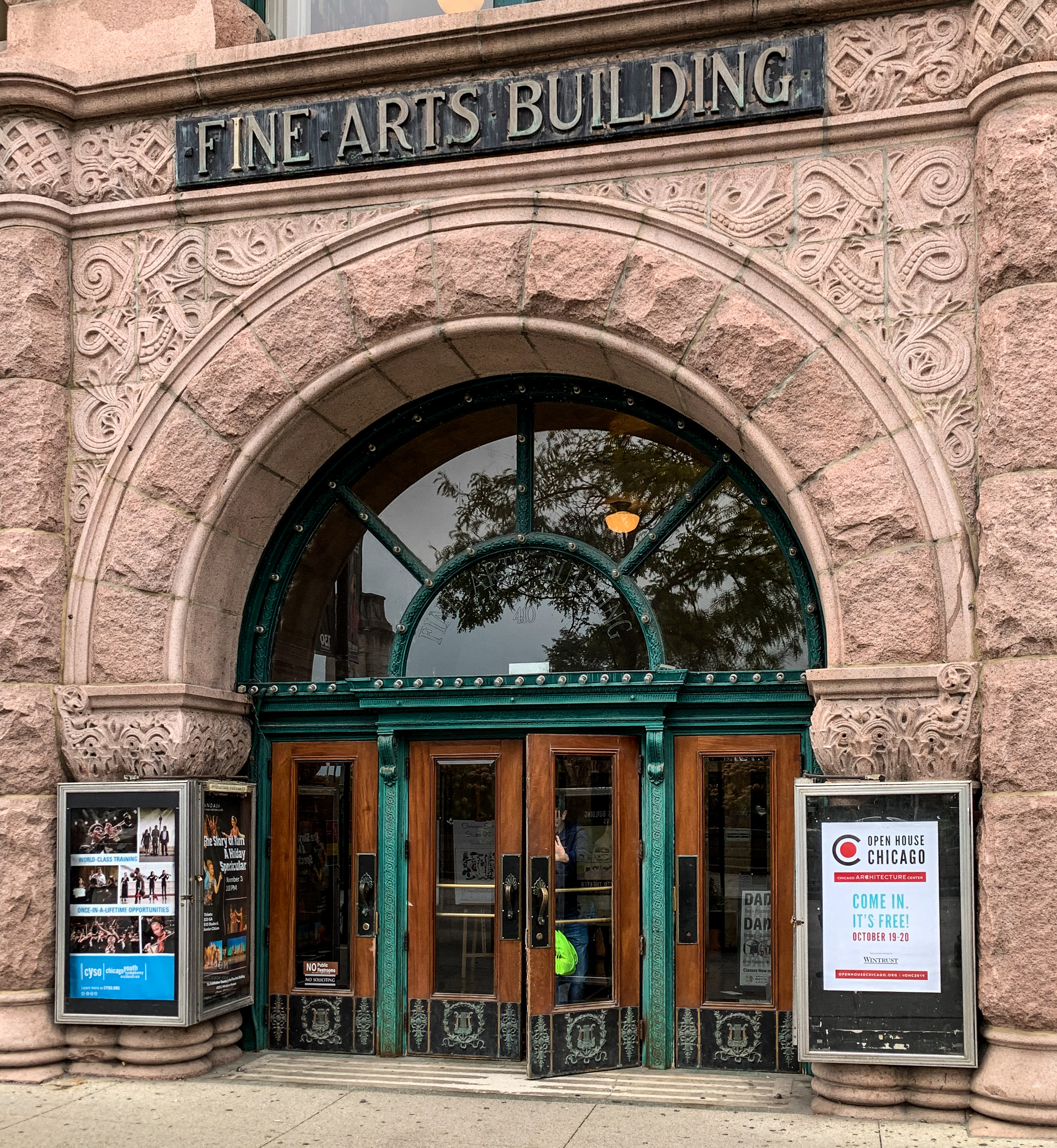 A sign announces that the Fine Arts Building participated in Open House Chicago in 2019.